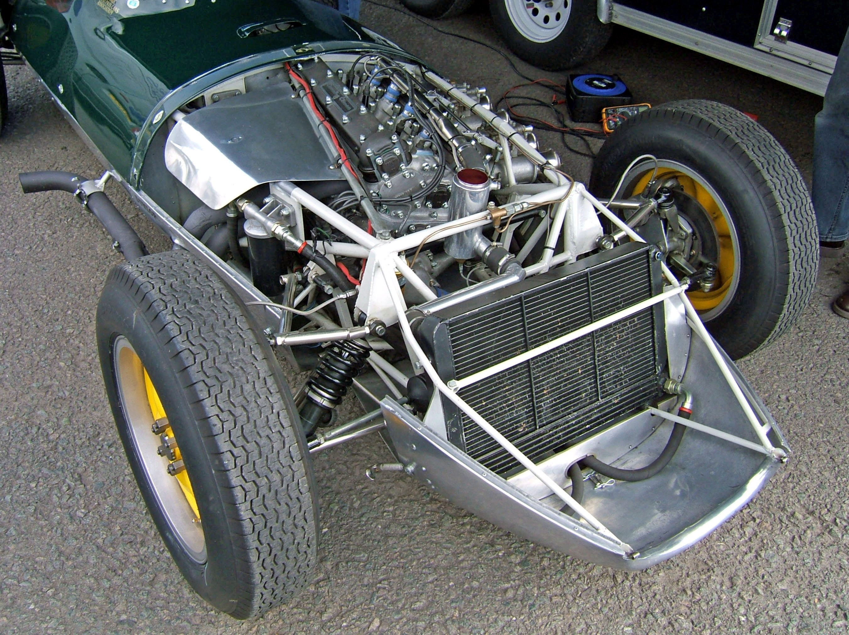 A Lotus 16 Formula One car with its bonnet removed, exposing its Coventry Climax FPF straight-4 engine and spaceframe chassis. In the paddock of the VSCC SeeRed race meeting, Donington Park, September 2007.